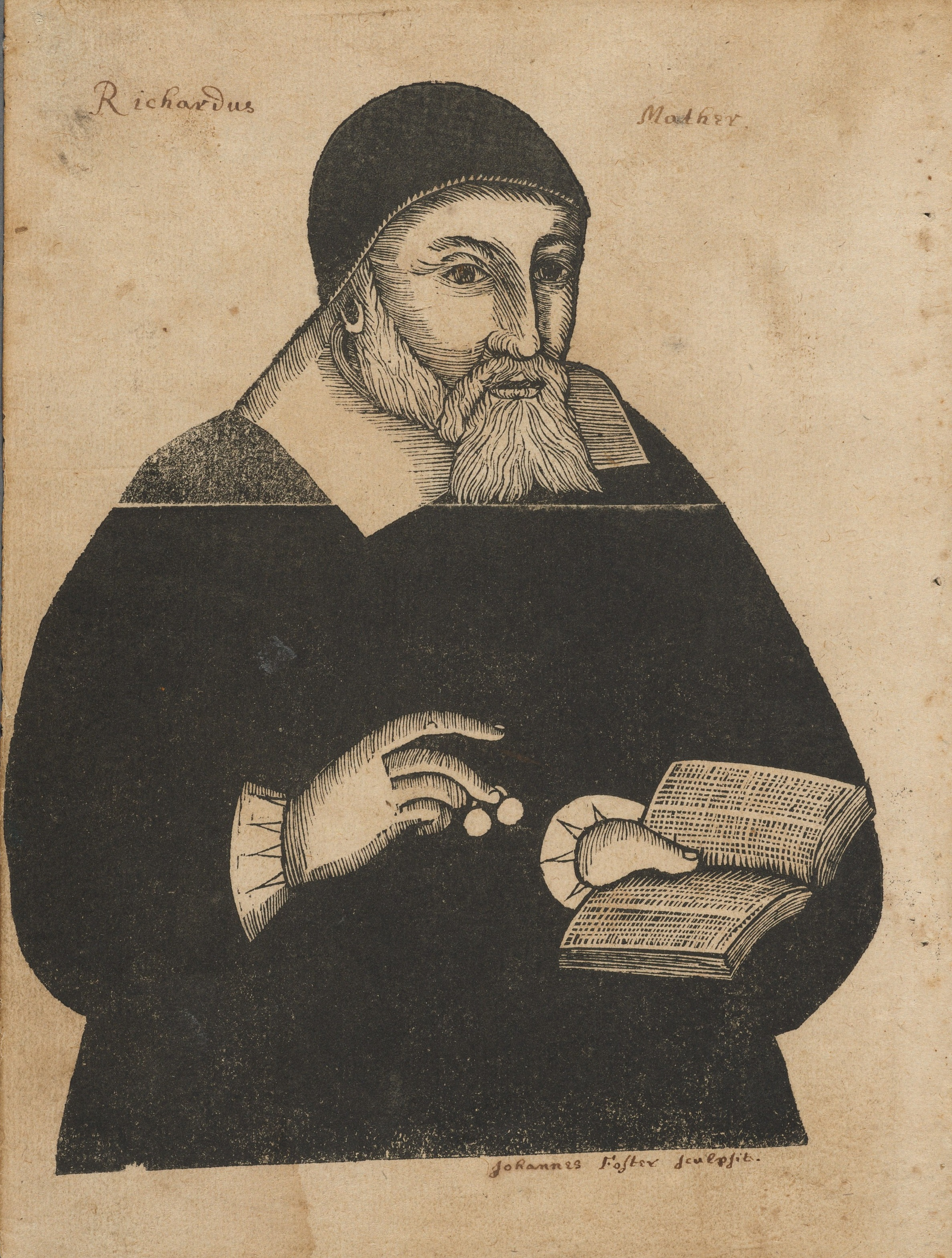 Illustration of Richard Mather (1596-1669) by John Foster, circa 1675, used as an added frontispiece to a reissue of The life and death of that reverend man of God, Mr. Richard Mather, teacher of the church in Dorchester in New-England, 1670, by Increase Mather. *AC6.Ad198.Zz683t no.5, Houghton Library, Harvard University